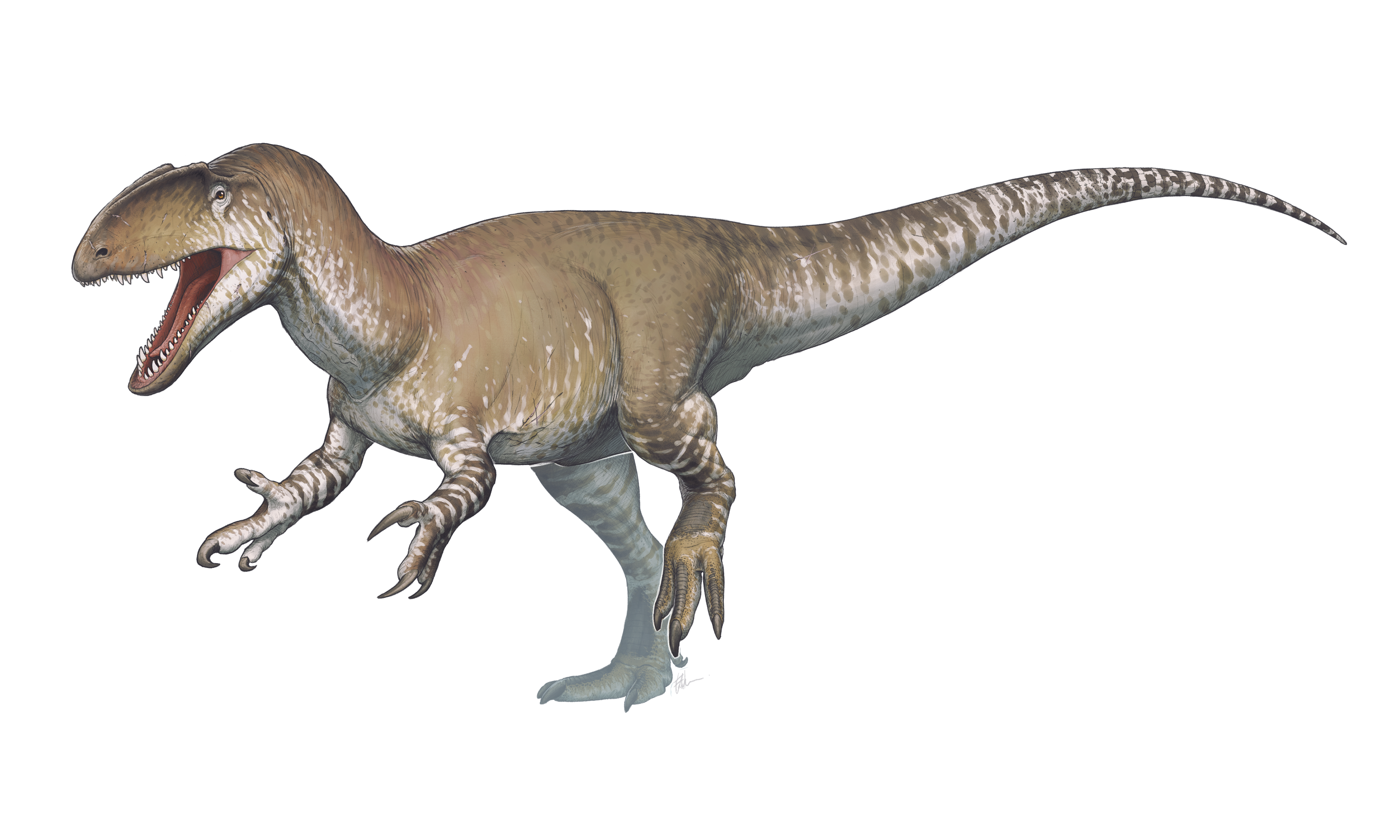 Artistic reconstruction of Neovenator salerii. Proportions align with Hartman; cranial integument is based on Barker et al. (2017).